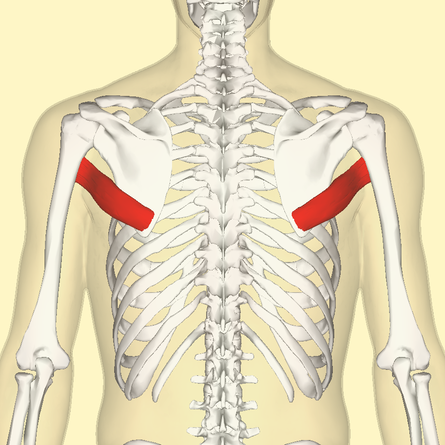 Teres major muscle (shown in red).